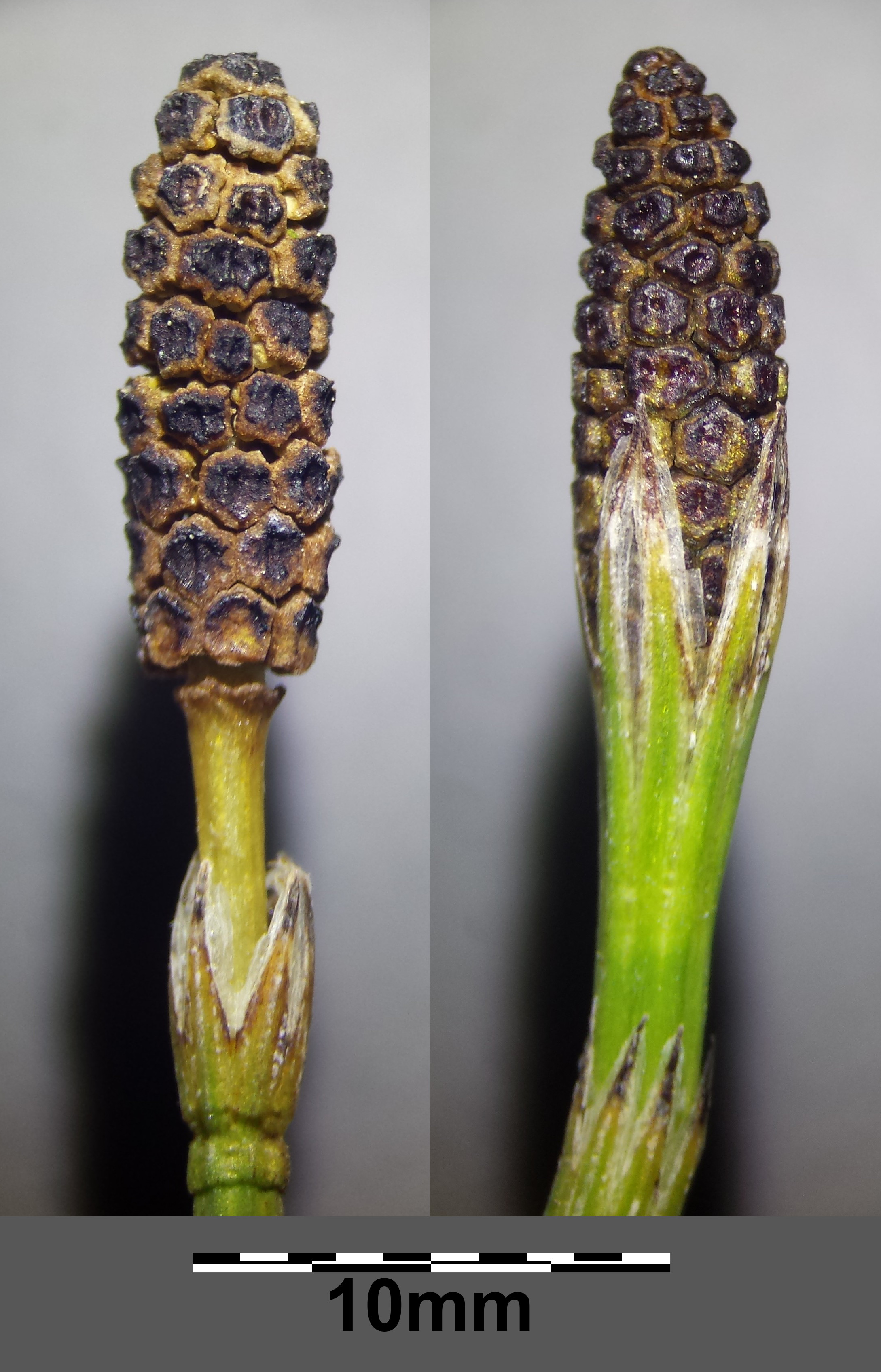 Cones Taxonym: Equisetum palustre ss Fischer et al. EfÖLS 2008 ISBN 978-3-85474-187-9 Location: near Praunsberger Wald near Niederhollabrunn, district Korneuburg, Lower Austria - ca. 300 m a.s.l. Habitat: wet meadows